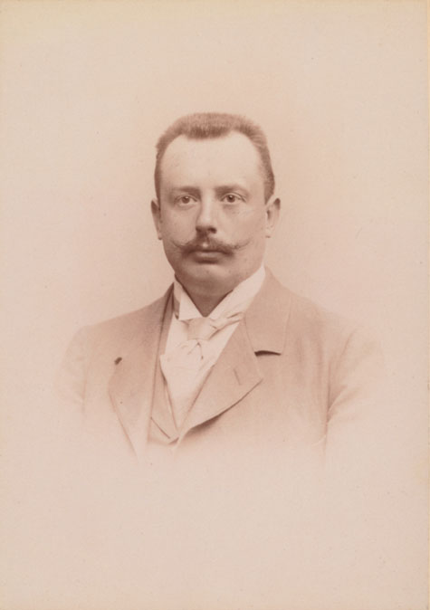 Ernst Bumm (1858–1925), German gynaecologist